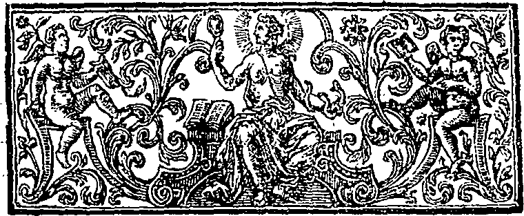 Fleuron from book: The mischief of rash and uncharitable judging, a sermon preach'd at Exon, Sept. 11. 1718, at the Young-men's lecture. By Isaac Gilling. ...